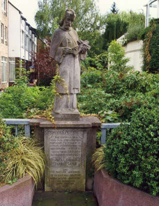 Die Nepomukstatue auf der Erftbrücke in Bergheim